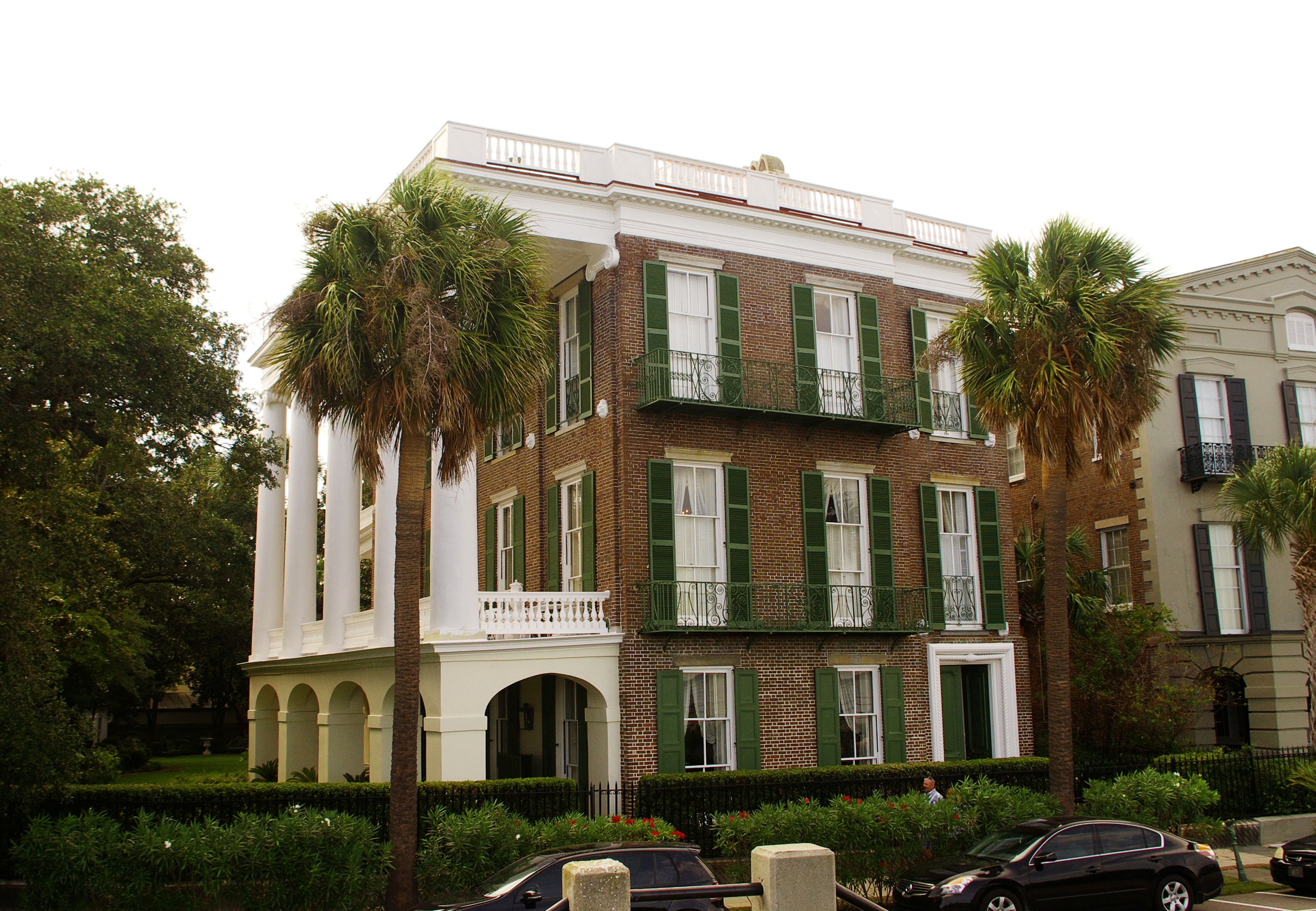 The William Roper House at 9 East Battery in Charleston, South Carolina. This house was built in 1838.